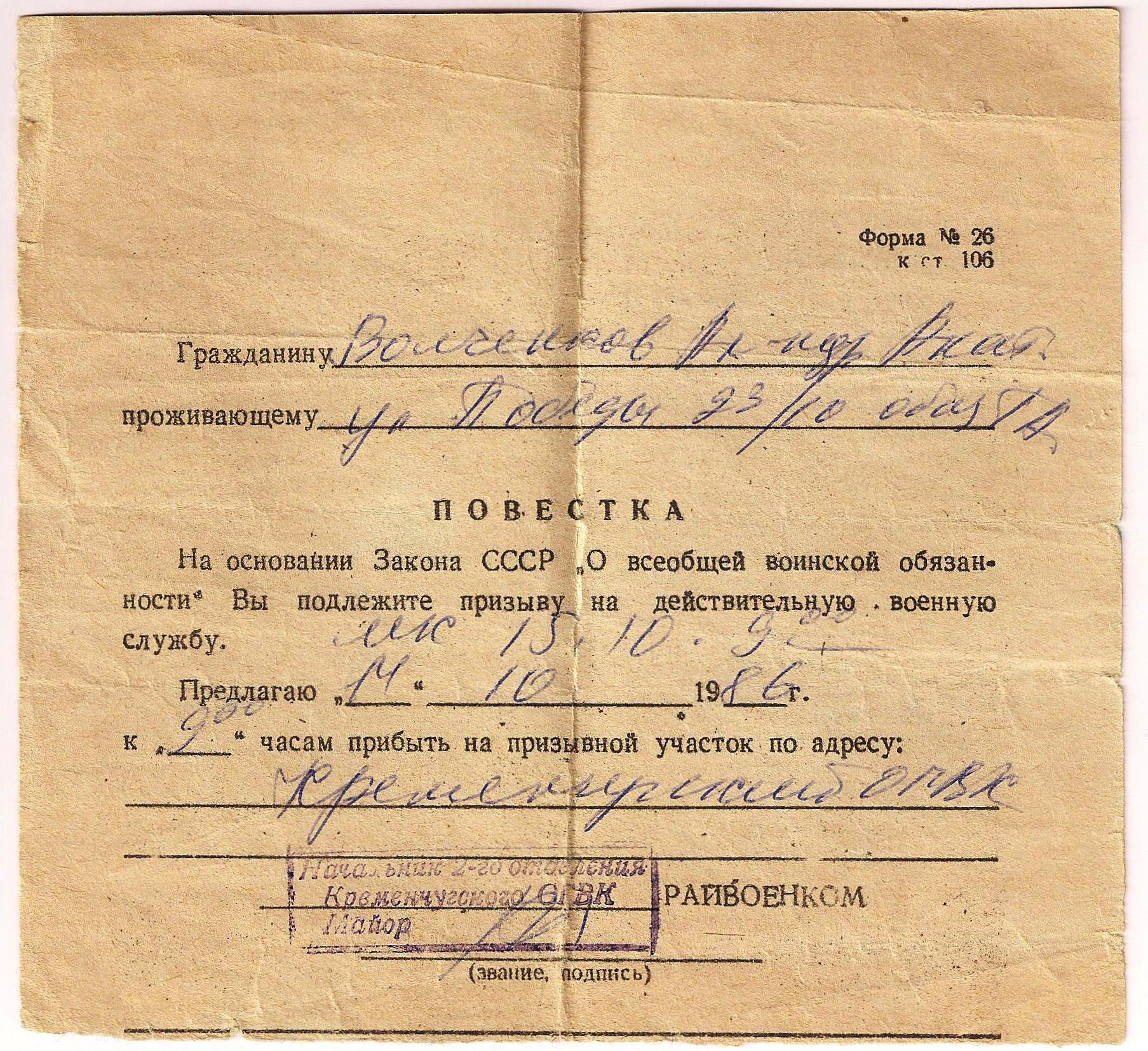 Alexander Volchenkov in army